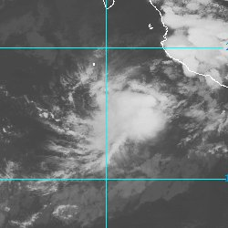 Tropical Storm Gilma is photographed off the coast of Mexico at 0000 UTC on 2 Aug 2006. At the time the maximum sustained winds were about 35 knots.